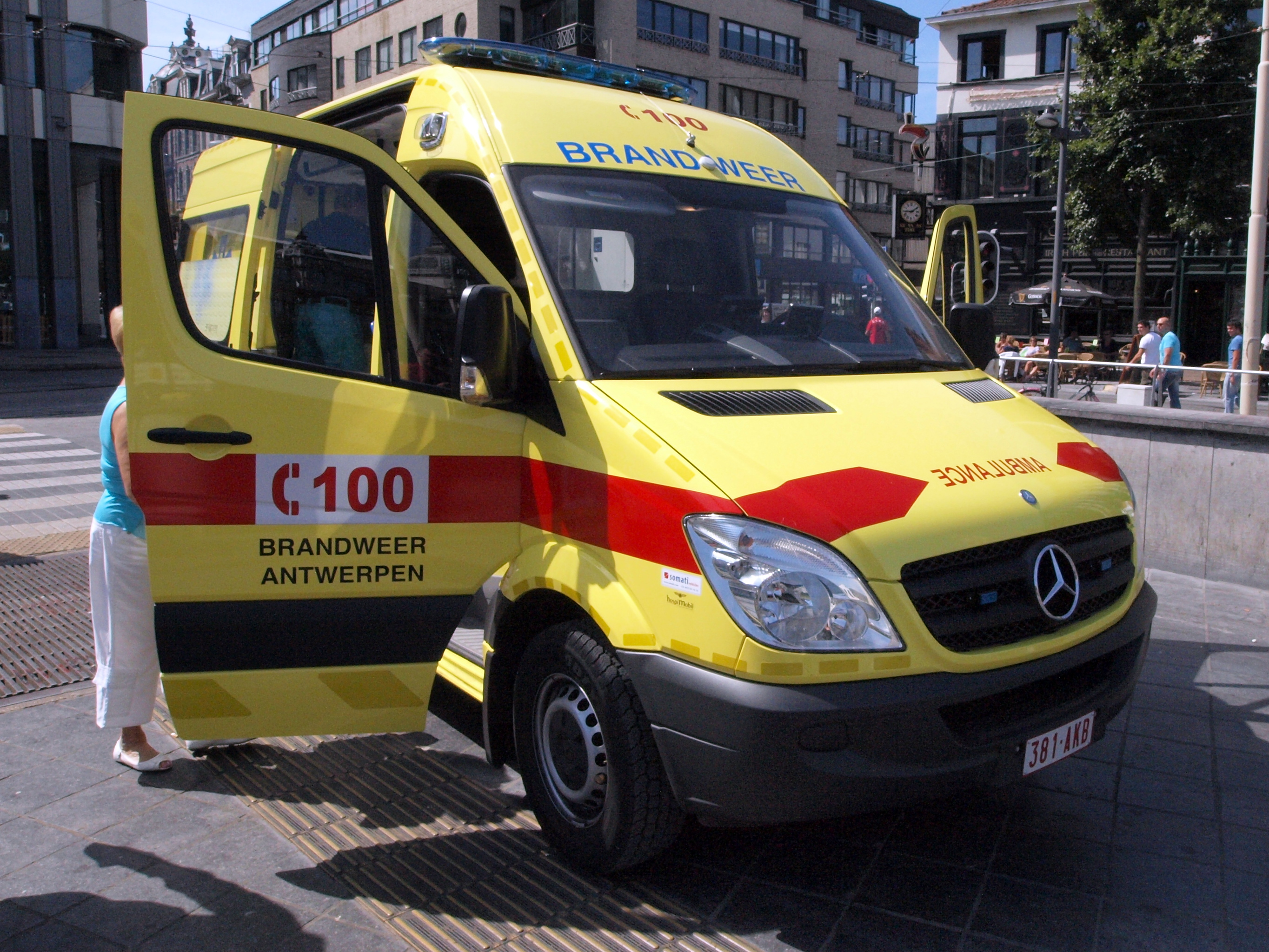 Photographed in Belgium.